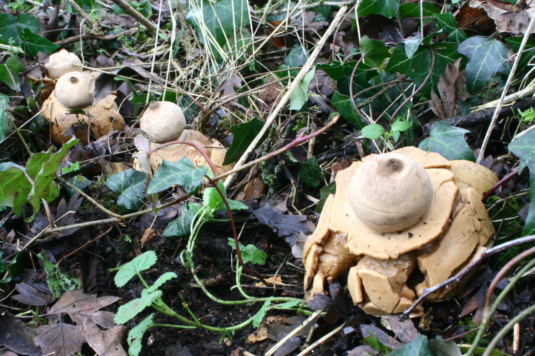 Geastrum triplex in a field hedge in Hampton-in-Arden, England.